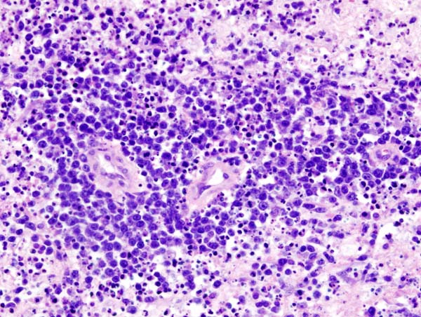 Histopathologic image of CNS B-cell lymphoma. Stereotactic biopsy. H & E stain.